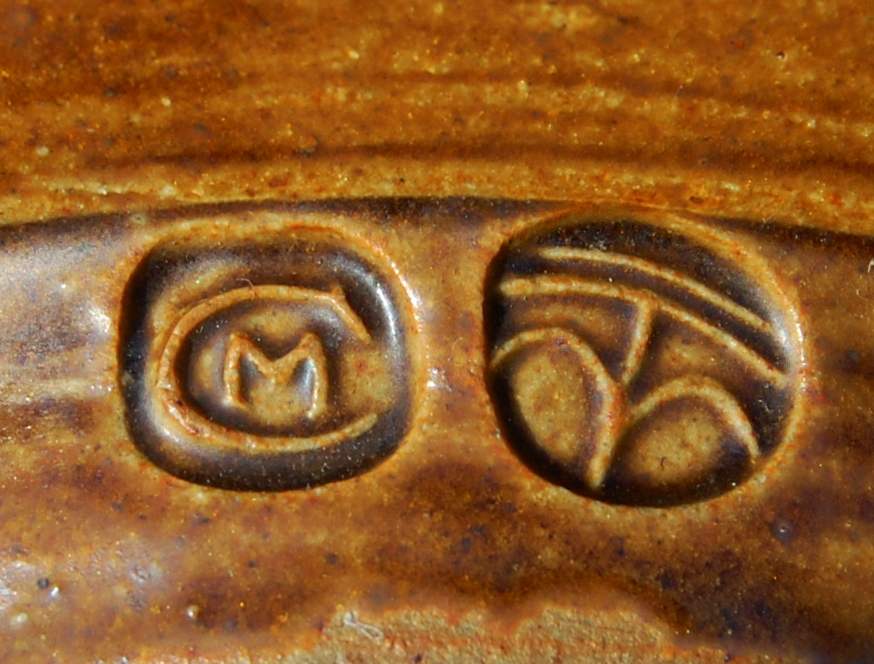 Michaels Cardew's mark